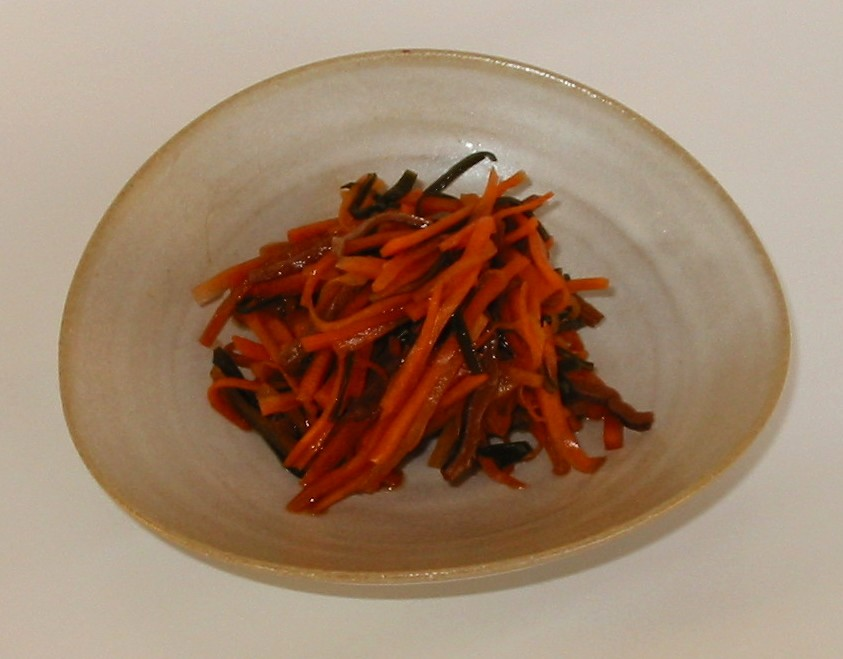 Ika-ninjin:a pickled dish native to Fukushima pref of Japan.